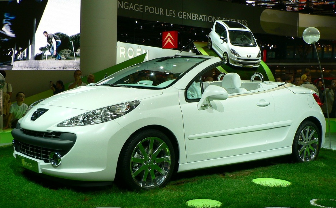 Peugeot 207 CC at the 2006 Paris Motor Show